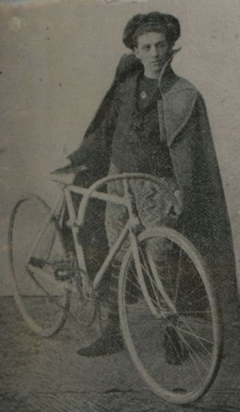 polish cyclist